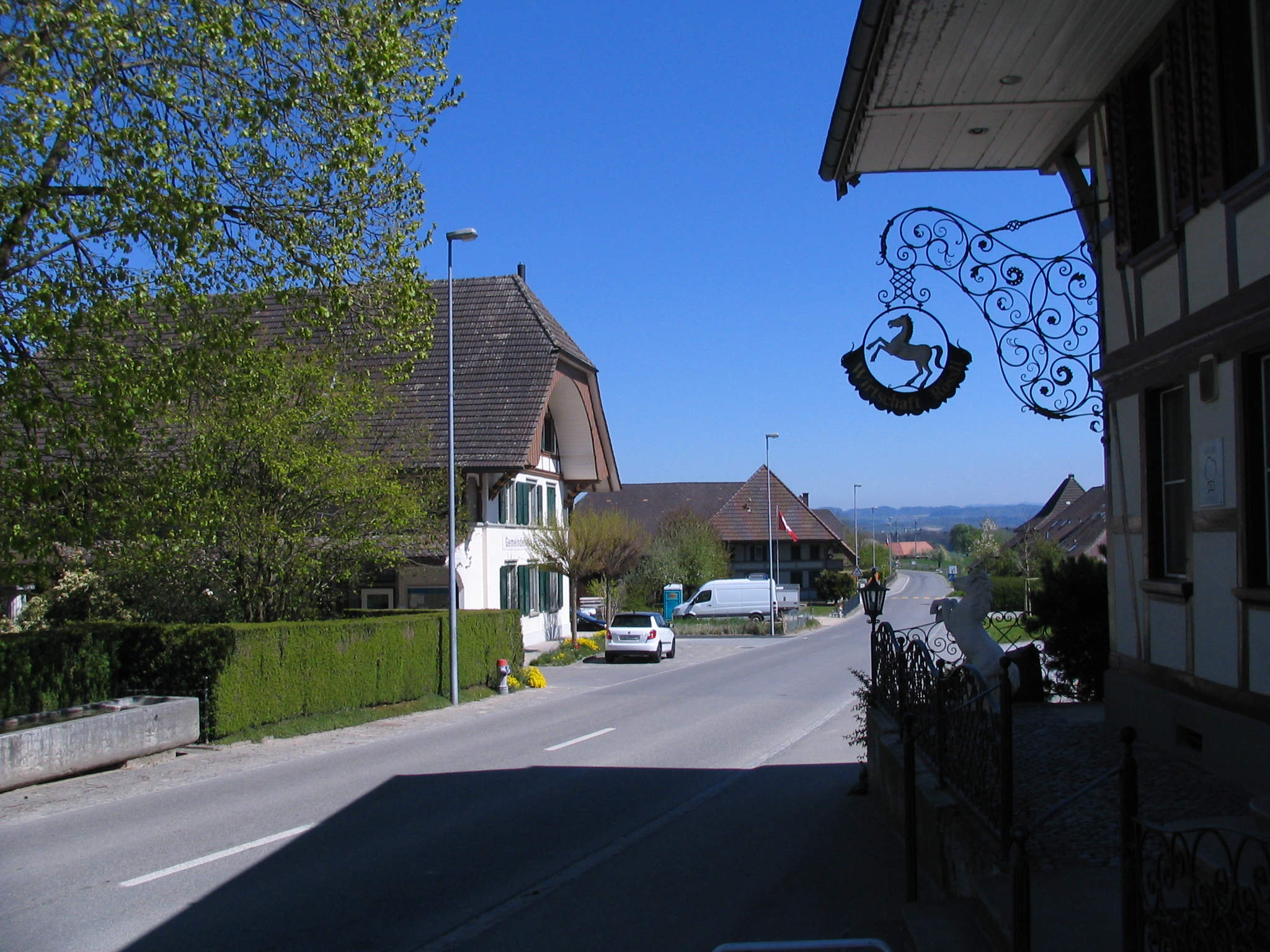 Büren zum Hof (Canton of Bern, Switzerland): in the center